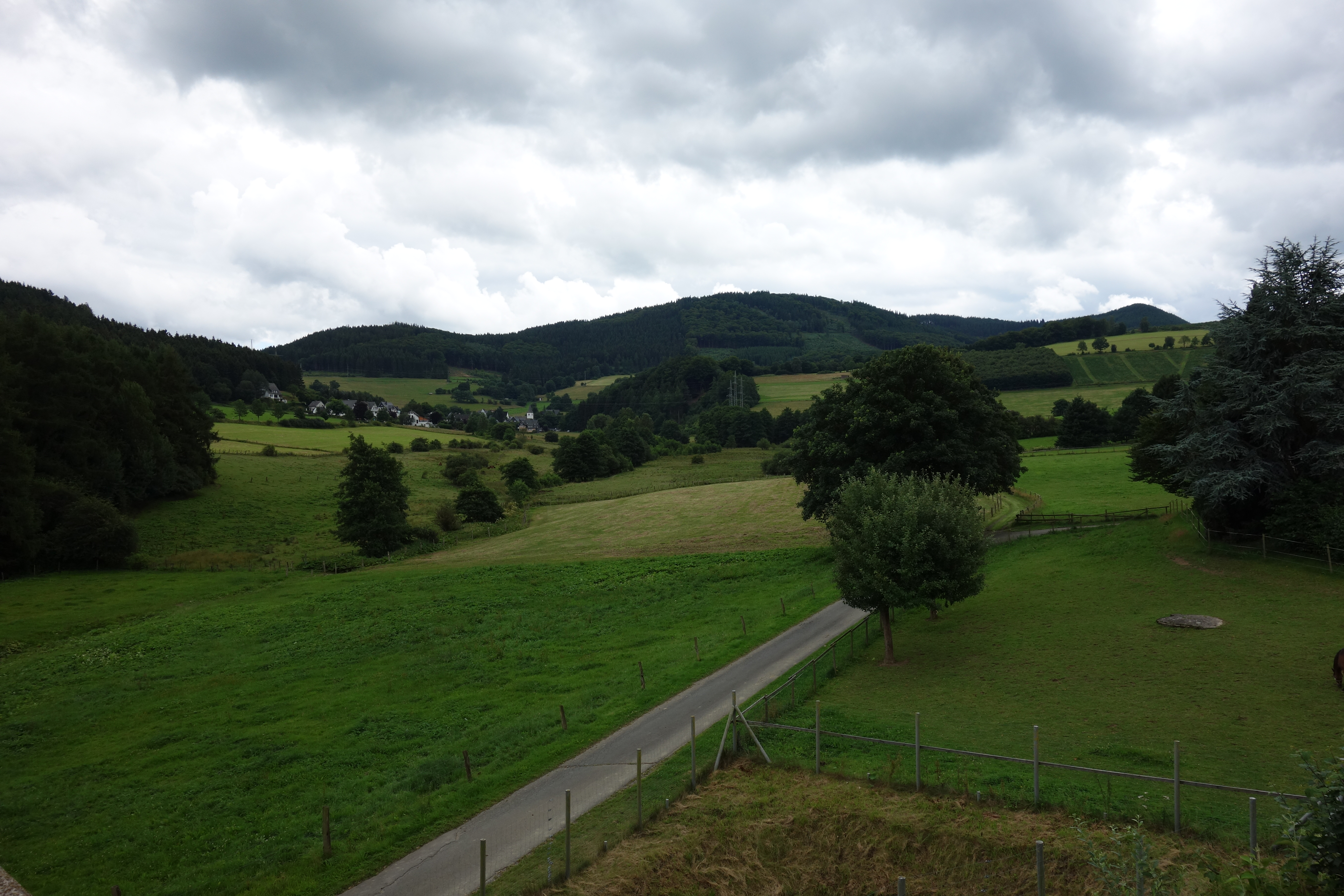 Naturschutzgebiet Helmeringhauser Bruch von Brücke nördlich NSG. Wald hinten gehört zum LSG Olsberg